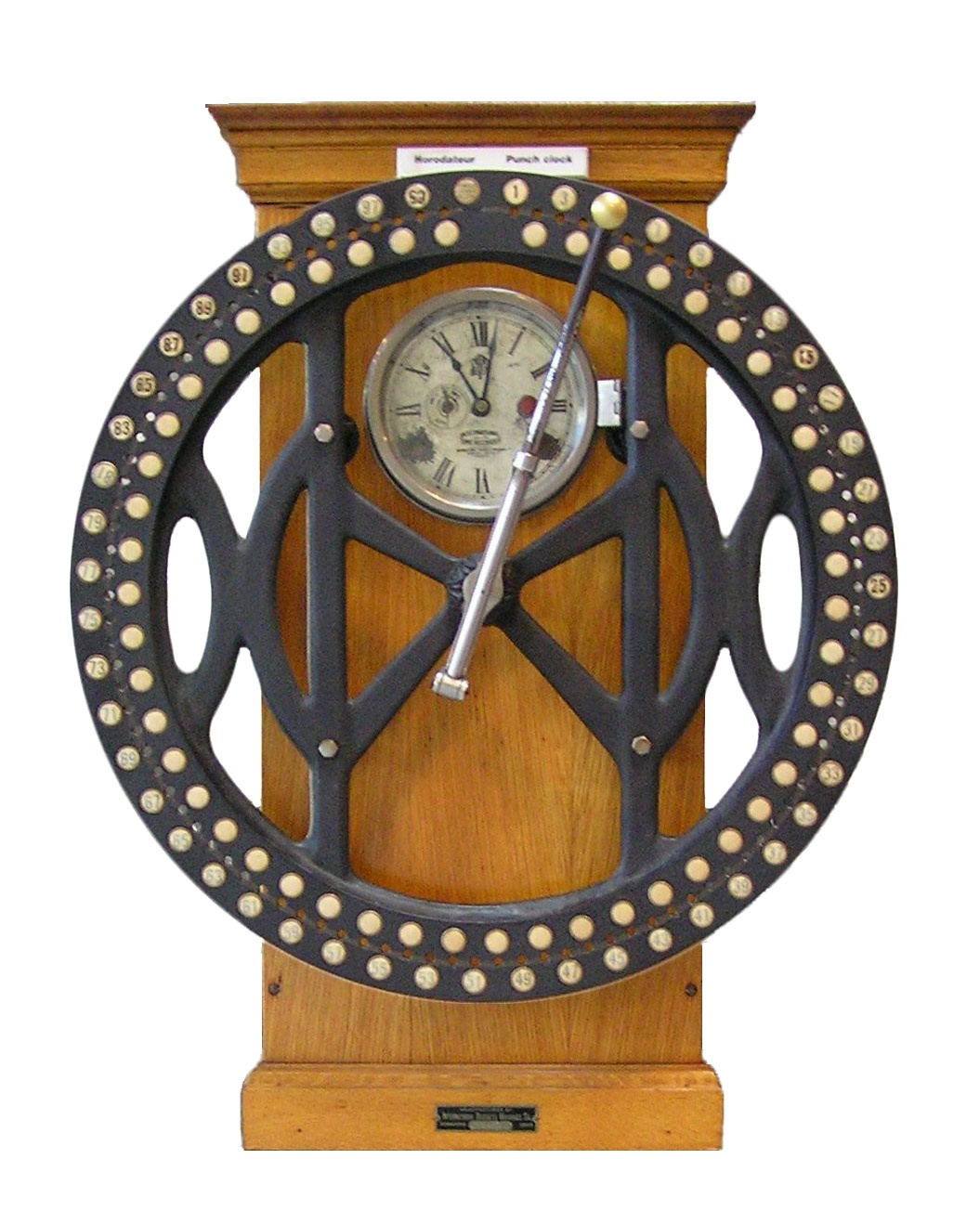 Early twentieth century time clock used to keep track of employee's work hours. Employees would dial the handle to their employee number (1-100) on the face shown here and push the lever. A mechanism inside the box would encode the day, time, and employee number and print it on a roll of paper. Photo taken in the Artillery Park in Quebec City, Quebec, Canada by Yannick Trottier in 2006